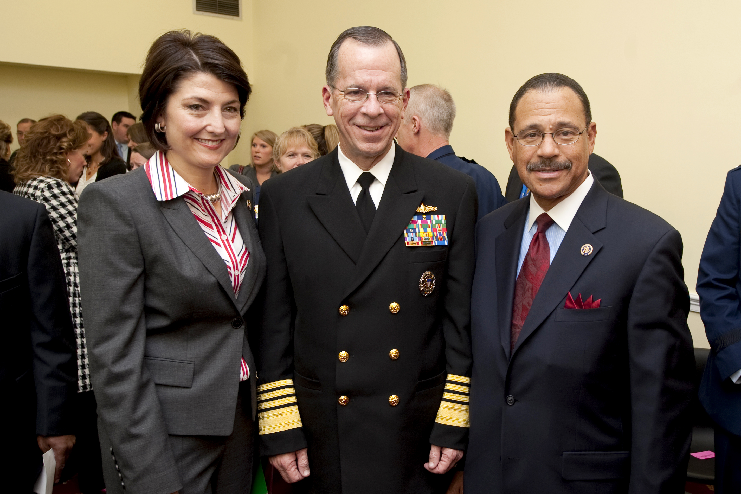 Congresswoman Cathy McMorris Rodgers, left, and Congressman Sanford Bishop, co-chairs of the Congressional Military Family Caucus pose for a photo with U.S. Navy Adm. Mike Mullen, chairman of the Joint Chiefs of Staff, at the caucus kickoff, Rayburn House Office Building, Washington, D.C., Nov. 4, 2009. The caucus will educate congressional members on resources available for military families and help develop legislation to support military families.